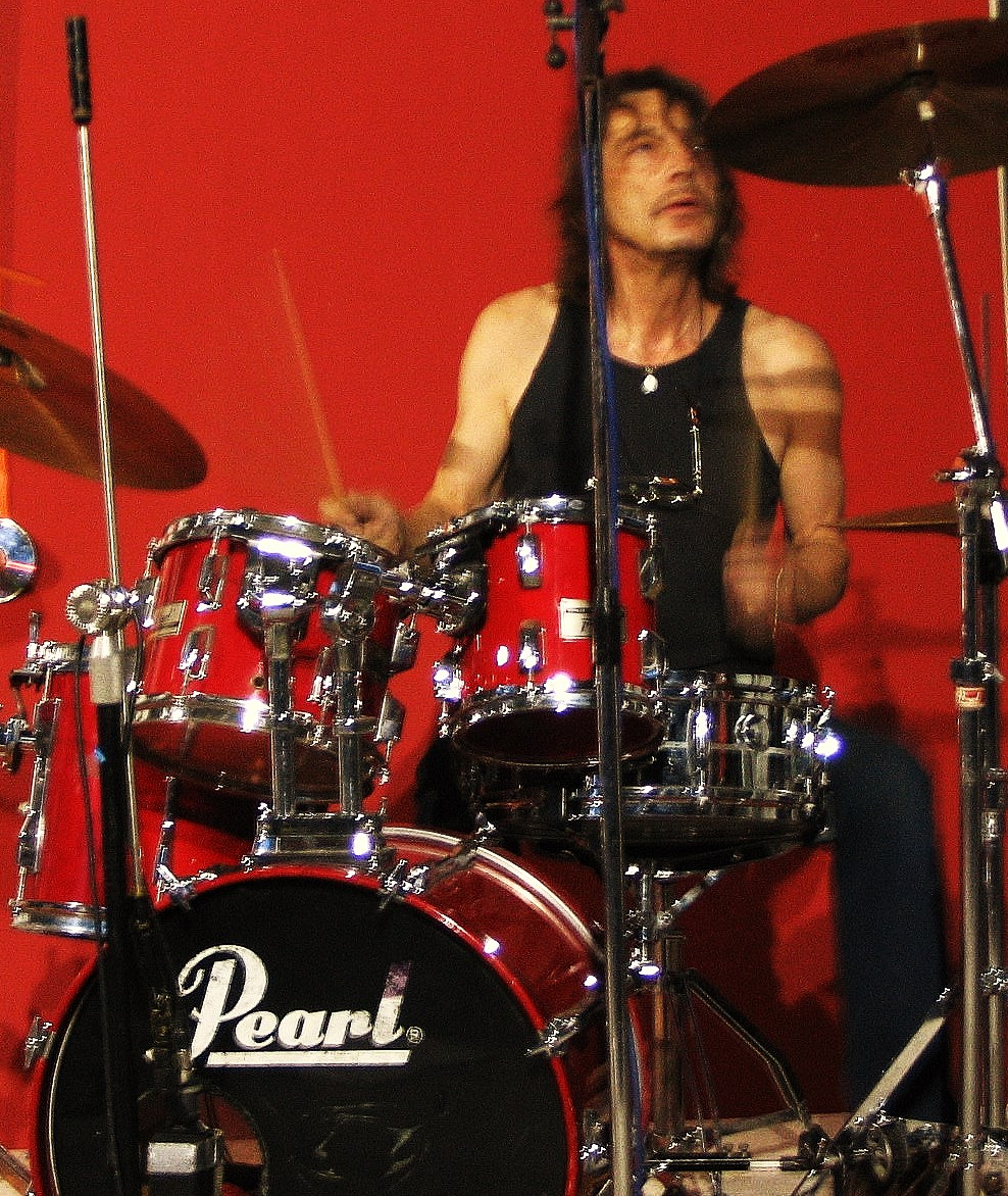 Karel Káša Jahn on stage, just before concert, during soundcheck. The concert held place in Rockovy Dvur, Prague 7, during the Rock Summer 2007, a festival organized by Káša's K1 Music School, with more than 30 open air concerts in the school's courtyard.